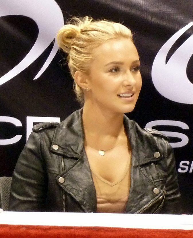 Actress Hayden Panettiere at Fan Expo 2011 in Toronto.